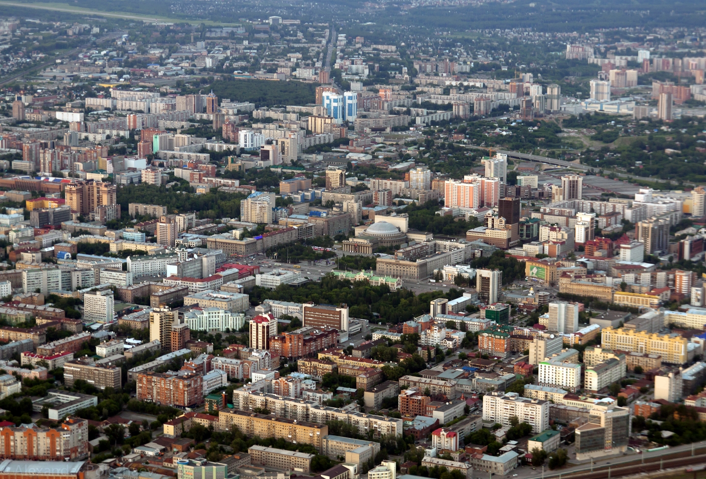 View of Novosibirsk, Russia.